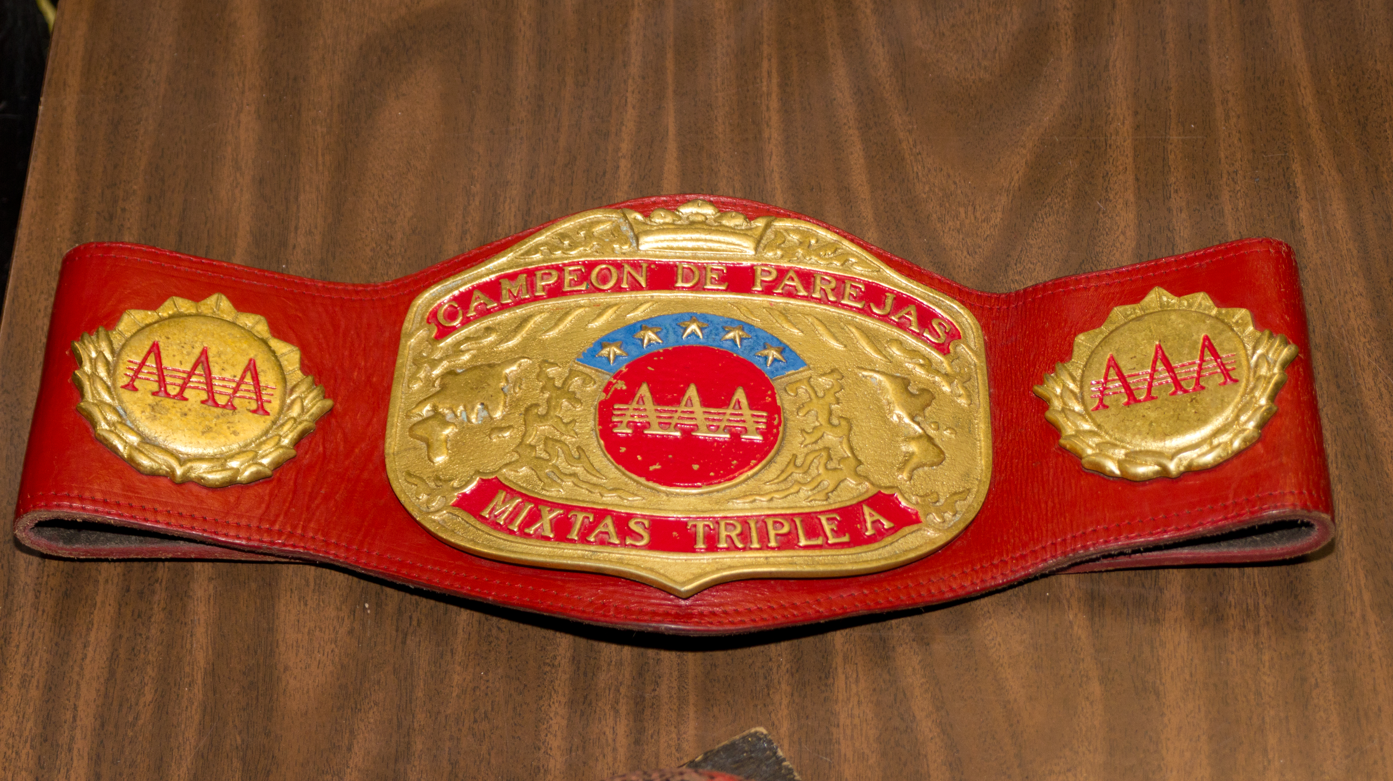 The AAA World Mixed Tag Team Championship belt, as worn by Jennifer Blake.